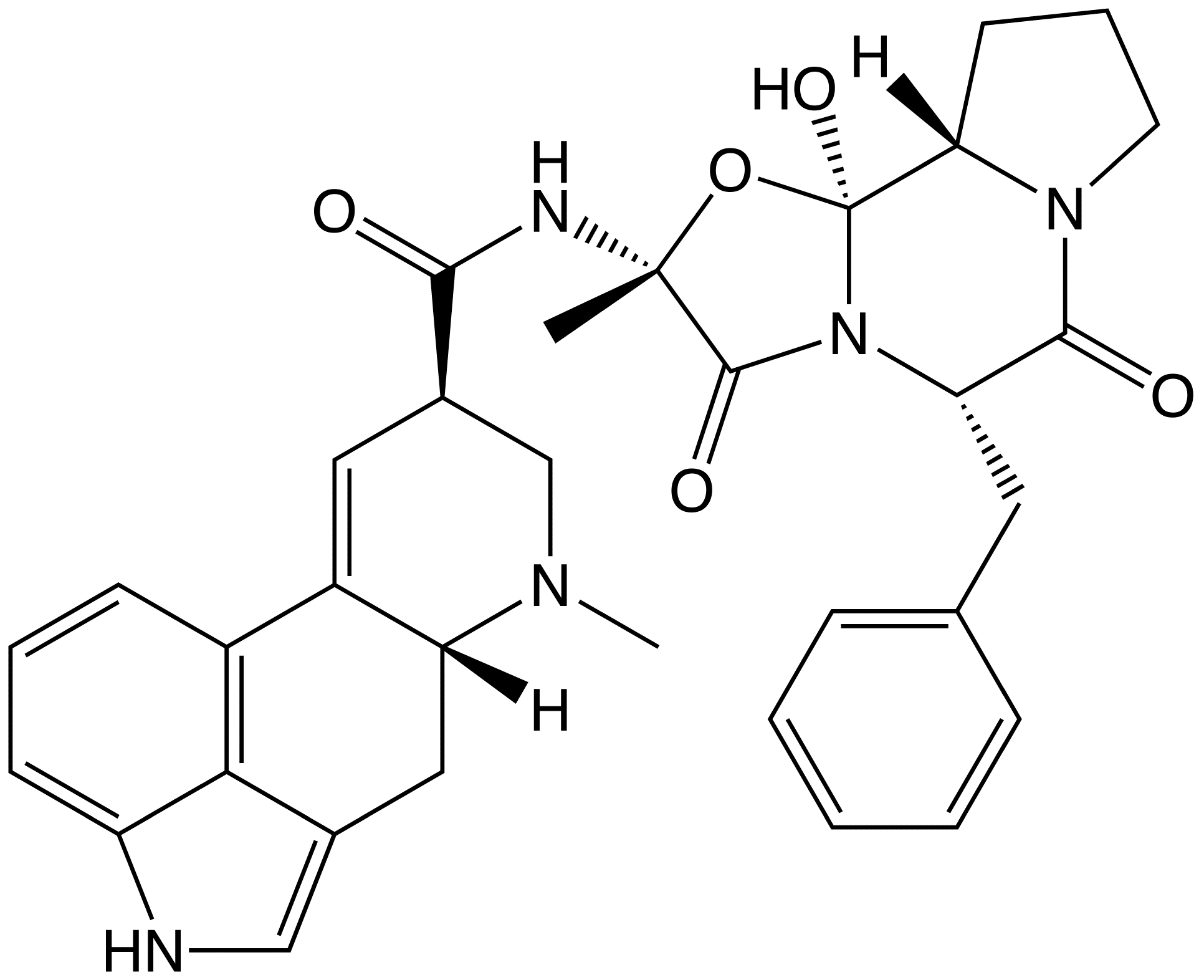 High-resolution png skeletal drawing of ergotamine. Older png image not drawn in wiki standards. SVG file exists, however this new image is drawn using space more efficiently, allowing larger thumbnail size in the drugbox.